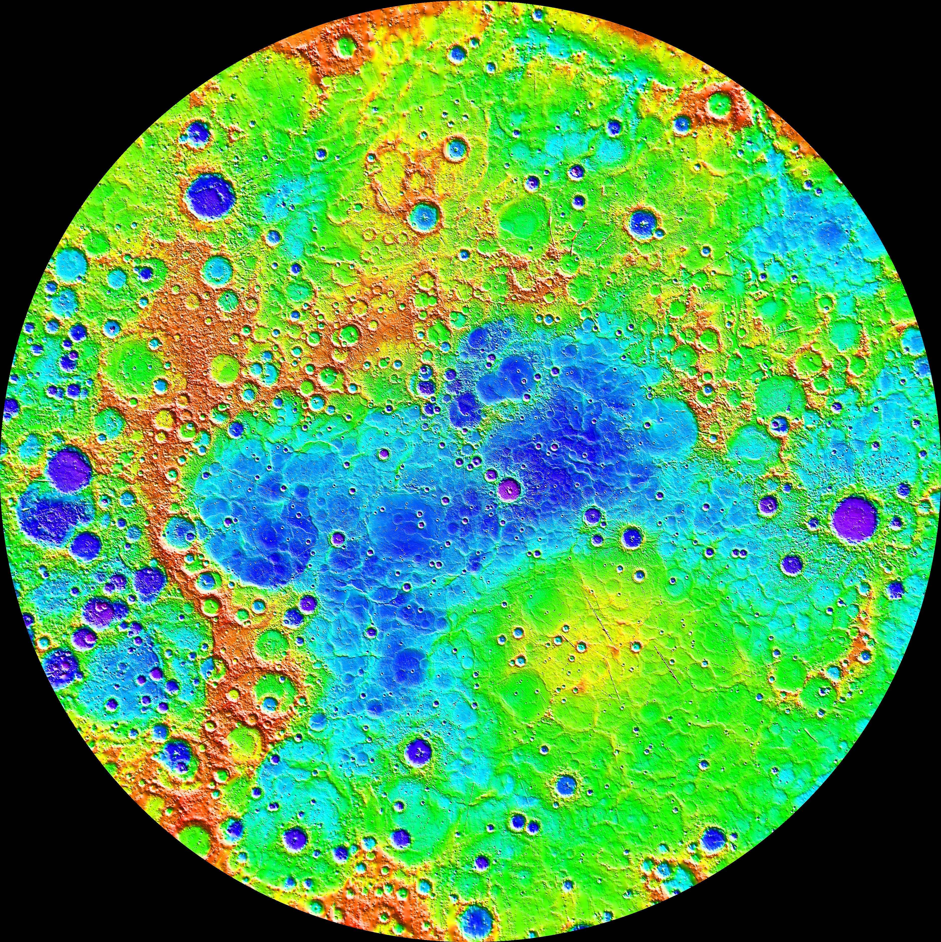 PIA19420: The Ups and Downs of Mercury's Topography Measurements from MESSENGER's MLA instrument during the spacecraft's greater than four-year orbital mission have mapped the topography of Mercury's northern hemisphere in great detail. The view shown here is an interpolated shaded relief map of these data. The lowest regions are shown in purple, and the highest regions are shown in red. The difference in elevation between the lowest and highest regions shown here is roughly 10 kilometers! Among the prominent features visible here are the smooth northern volcanic plains and the enigmatic northern rise. The low-lying craters near the north pole host radar-bright materials, thought to be water ice. Linear artifacts can be seen in some areas of this map. These are due to individual MLA tracks that need minor adjustments in order to fit the rest of the data. Crossover analysis and better knowledge of the spacecraft position can be used to adjust these tracks and improve the map. Instrument: Mercury Laser Altimeter (MLA) Center Latitude: 90° Center Longitude: 0° E Latitude Range: 45° to 90° N The MESSENGER spacecraft is the first ever to orbit the planet Mercury, and the spacecraft's seven scientific instruments and radio science investigation are unraveling the history and evolution of the Solar System's innermost planet. In the mission's more than four years of orbital operations, MESSENGER has acquired over 250,000 images and extensive other data sets. MESSENGER's highly successful orbital mission is about to come to an end, as the spacecraft runs out of propellant and the force of solar gravity causes it to impact the surface of Mercury in April 2015.